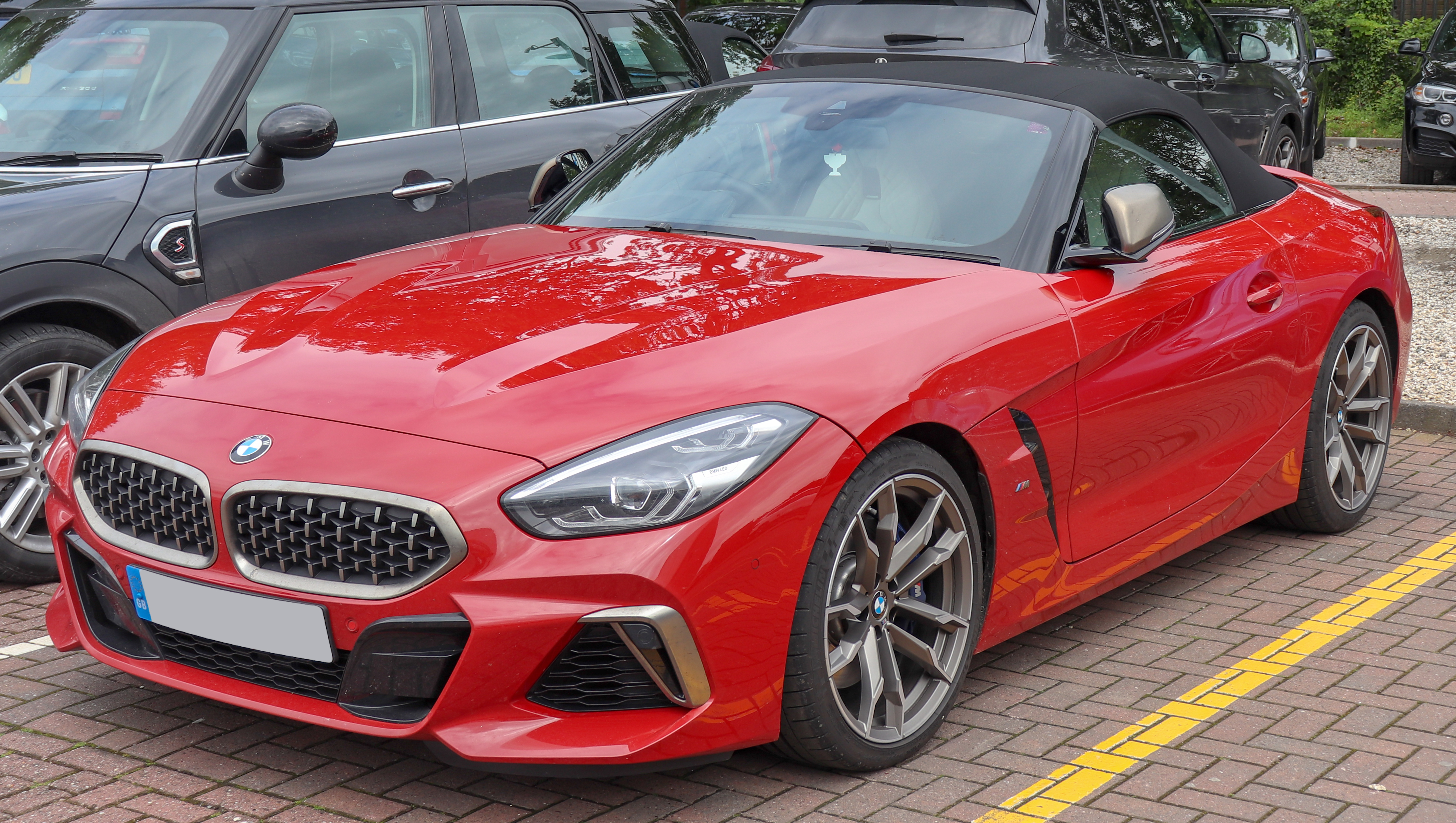 2019 BMW Z4 M40i Automatic 3.0 Taken in Leamington Spa